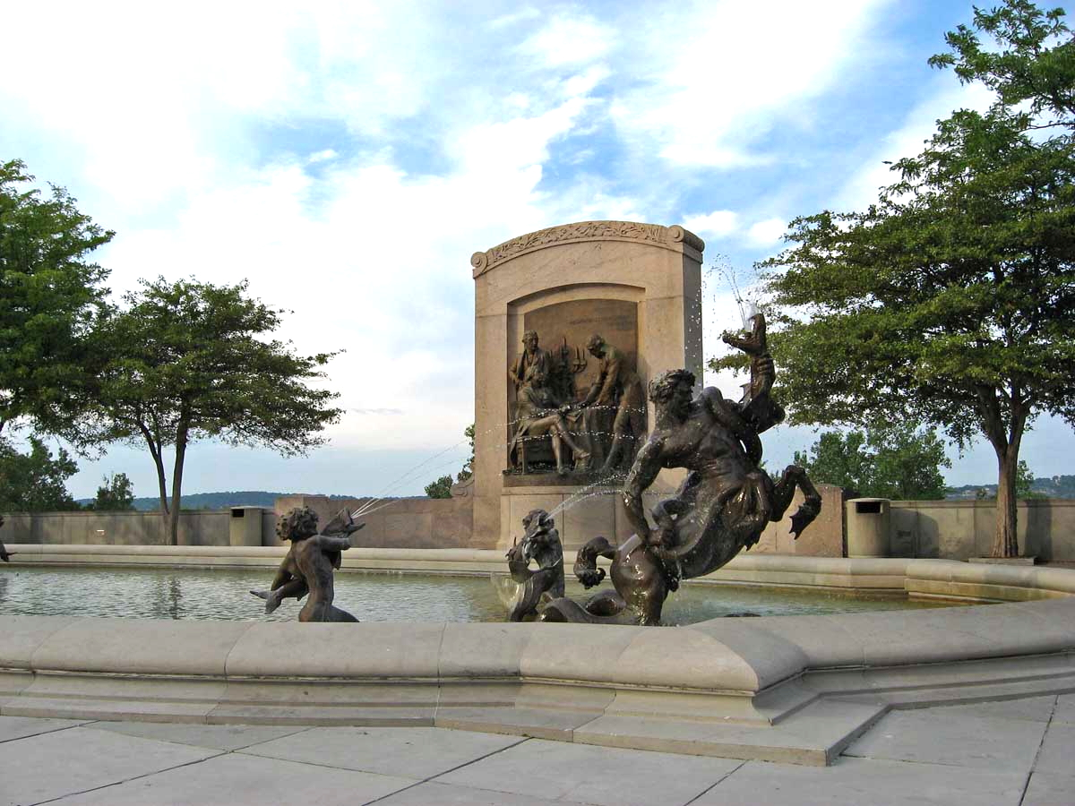 Fountain of th Centaurs, Jefferson City, MO, USA AA Weinman sculptor